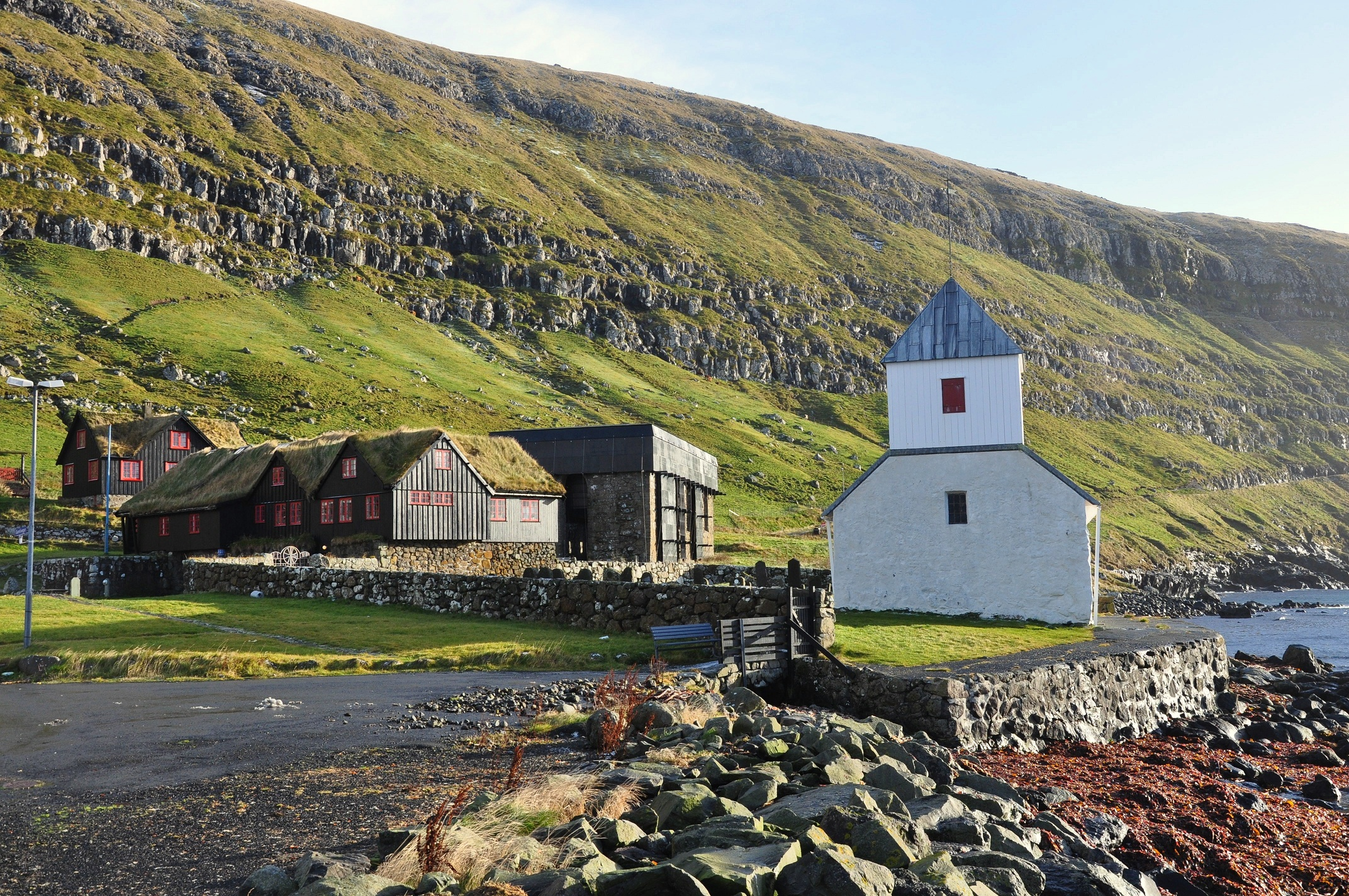 The village of Kirkjubøur on the island of Streymoy (Faroe Islands). The large farm on the left is Kirkjubøargarður (also called Roykstovan), the worlds' oldest still inhabited wooden house, also a museum, from the 11th century. At the center is the -covered- Magnus Cathedral. On the right is 12th century Saint Olav's church.